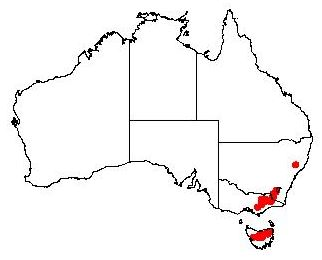 Exocarpos nanus Occurrence data from Australasian Virtual Herbarium downloaded 2019-08-24 using